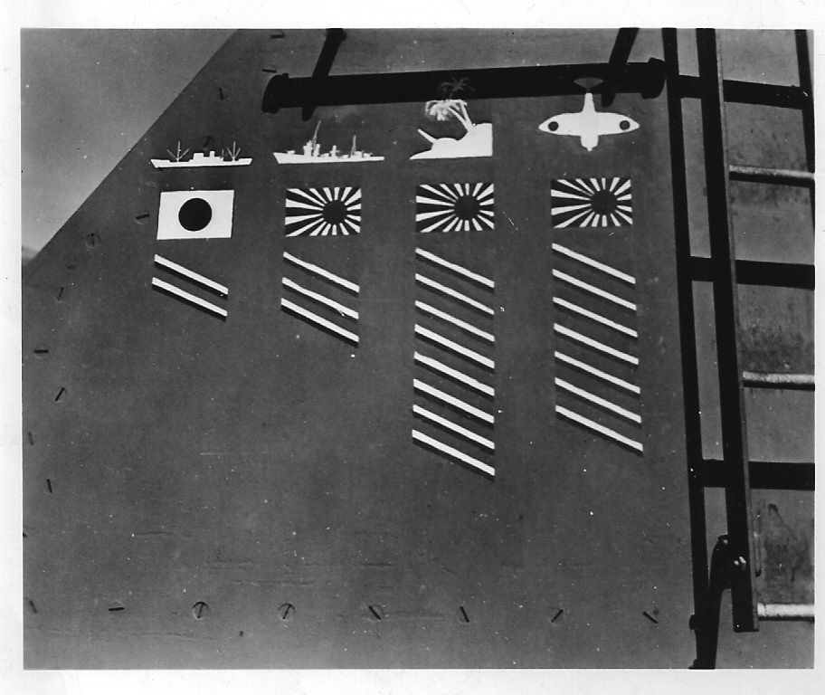 USS Dyson Commanded by Roy A. Gano, Scoreboard on the ship's gun director which indicates: 2 Japanese merchant ships sunk, 3 Japanese warships sunks, 8 shore bombardments, 7 Japanese planes shot down